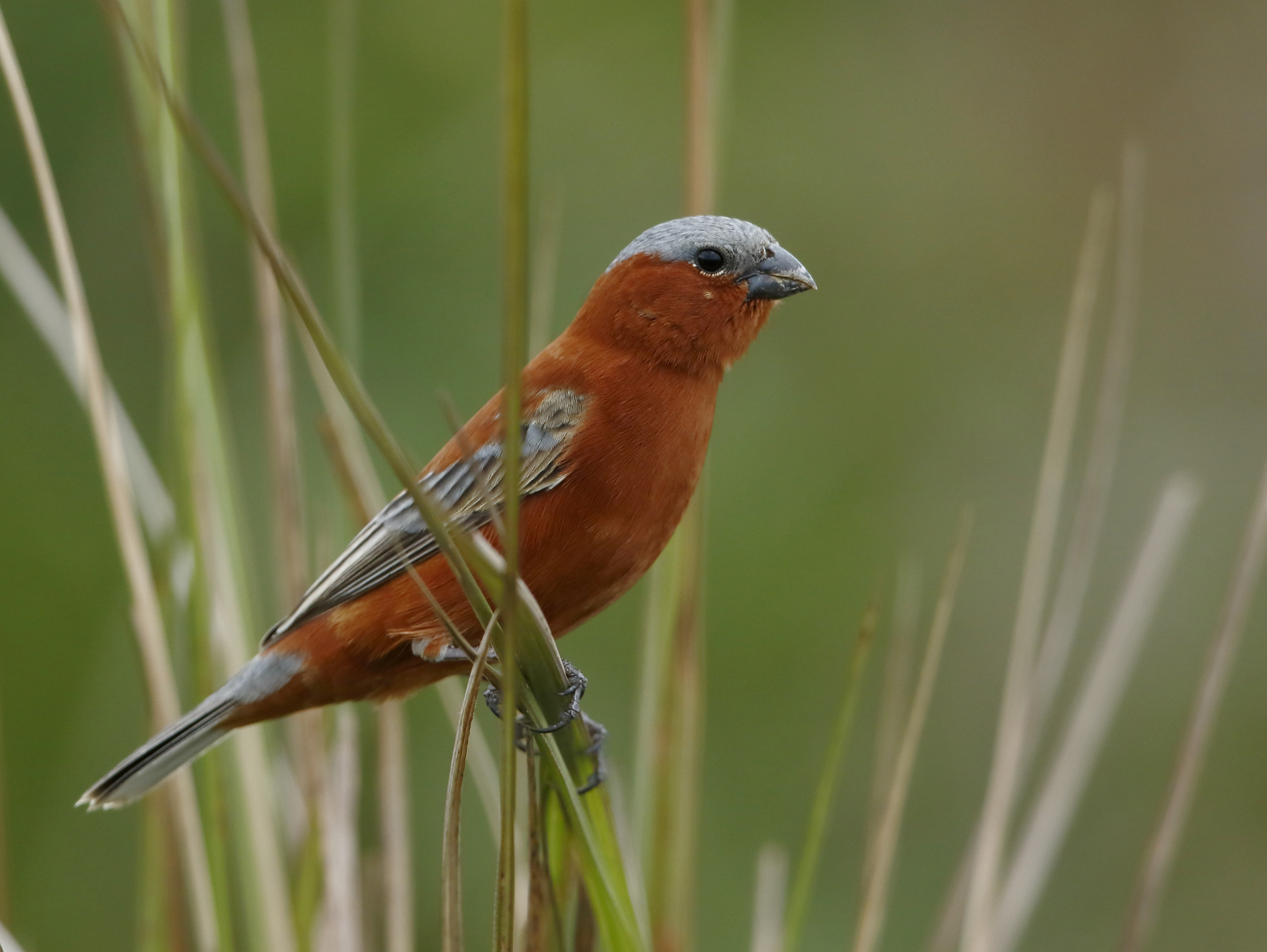 Chestnut Seedeater (male); Iberá marshes, Corrientes, Argentina